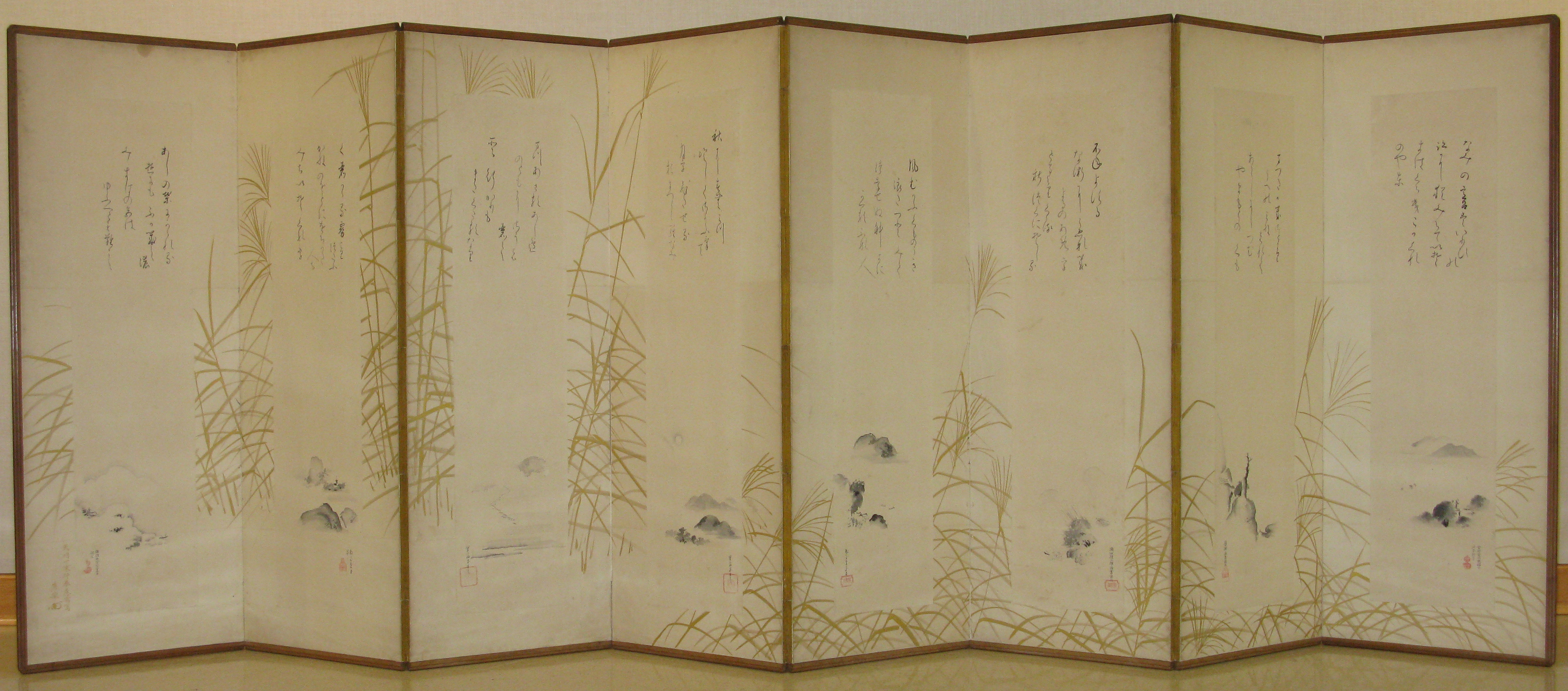 Japan; Screen; Screens